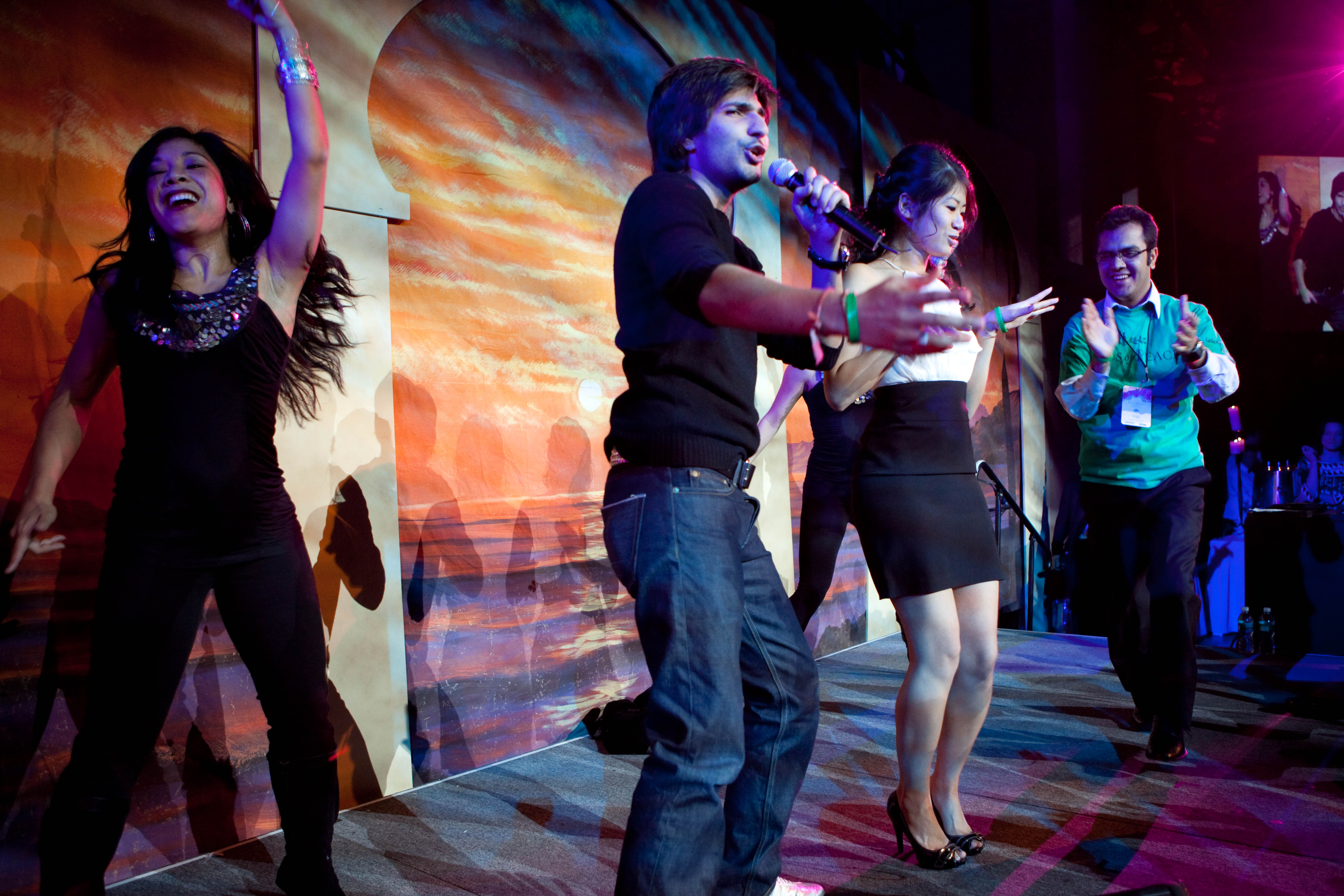 Adeel Chaudhry performing in New York City, February 2009.